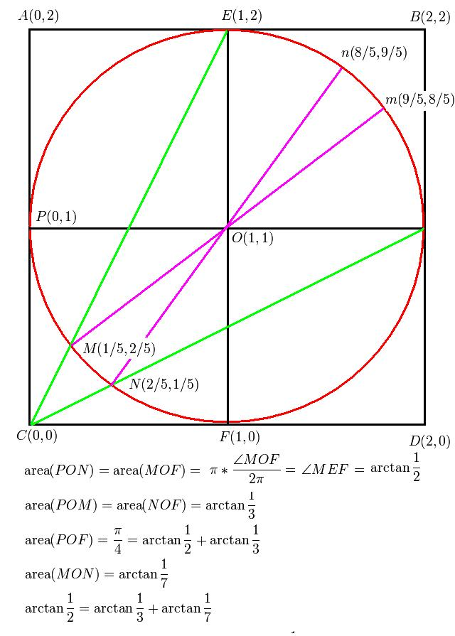 Diagram showing the relationship betwen arctangents and respective areas.